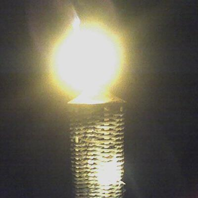 This is a picture I took of a tiki torch in my backyard. I want this to stay, as it is of the correct size of 400x400. A